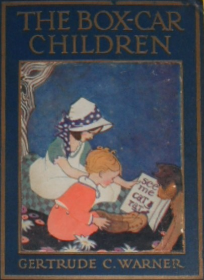 The cover of the original The Box-Car Children, by Gertrude Chandler Warner.